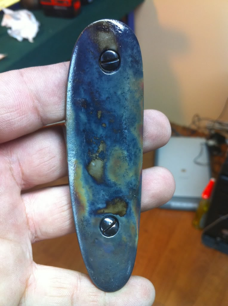 Color case hardening of butt plate for "Stevens Visible Loader". Screws are Niter Blued.